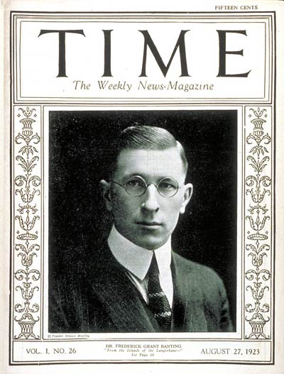 TIME Magazine Cover Featuring Frederick Banting (27 Aug 1923)